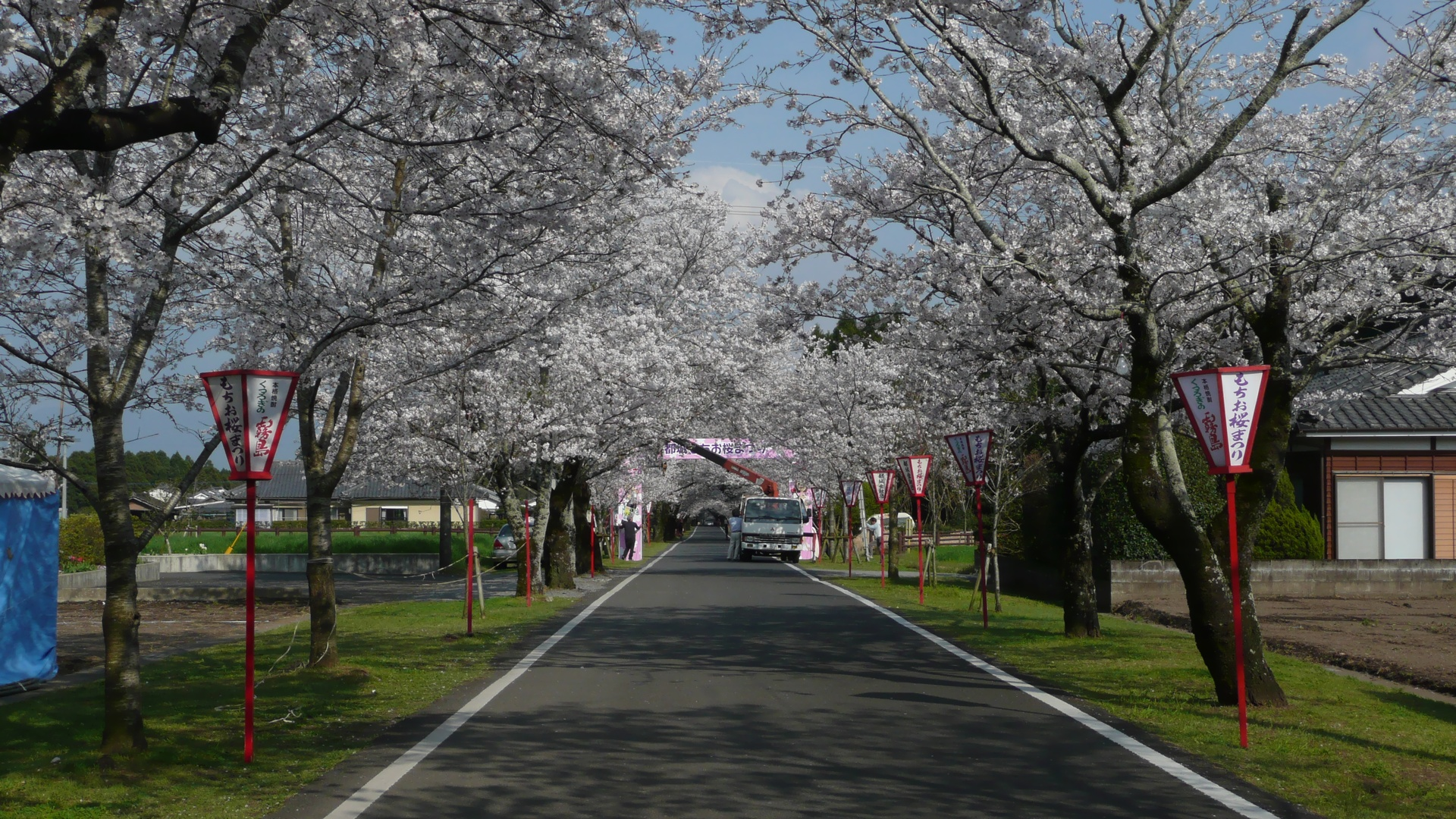 Mochio Park (Miyakonojo City, Miyazaki, Japan)